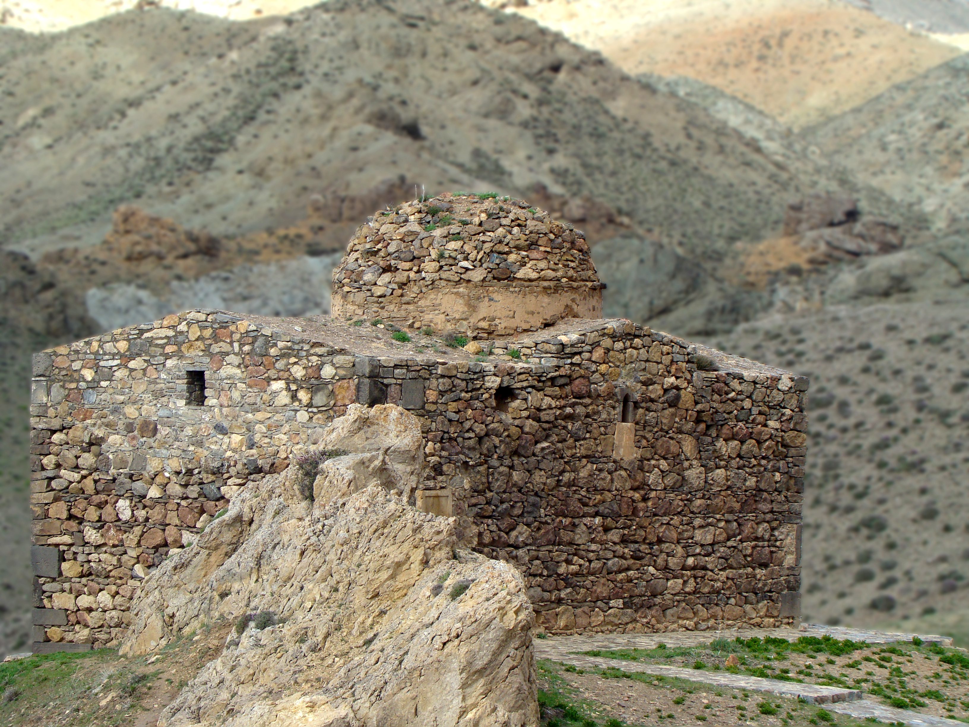 Zakariya tomb & church-West Azerbaijan, Near Ghara Kilisa.